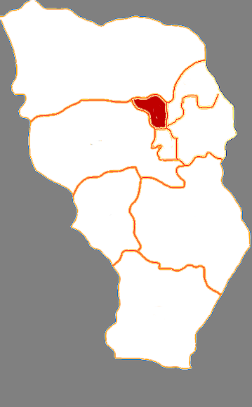 Locator map of Huimin District in Hohhot City, Inner Mongolia, China